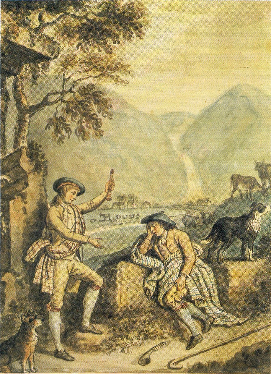 The opening scene of Allan Ramsay's 'The Gentle Shepherd' by David Allan (1744-96). The Scots term "craigy bield" translates as "sheltered crag".